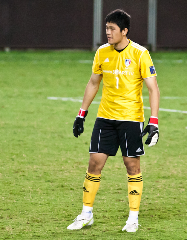 Jung Sung-Ryong playing for Suwon Bluewings in the 2011 Asian Champions League against Sydney FC in Sydney, Australia.